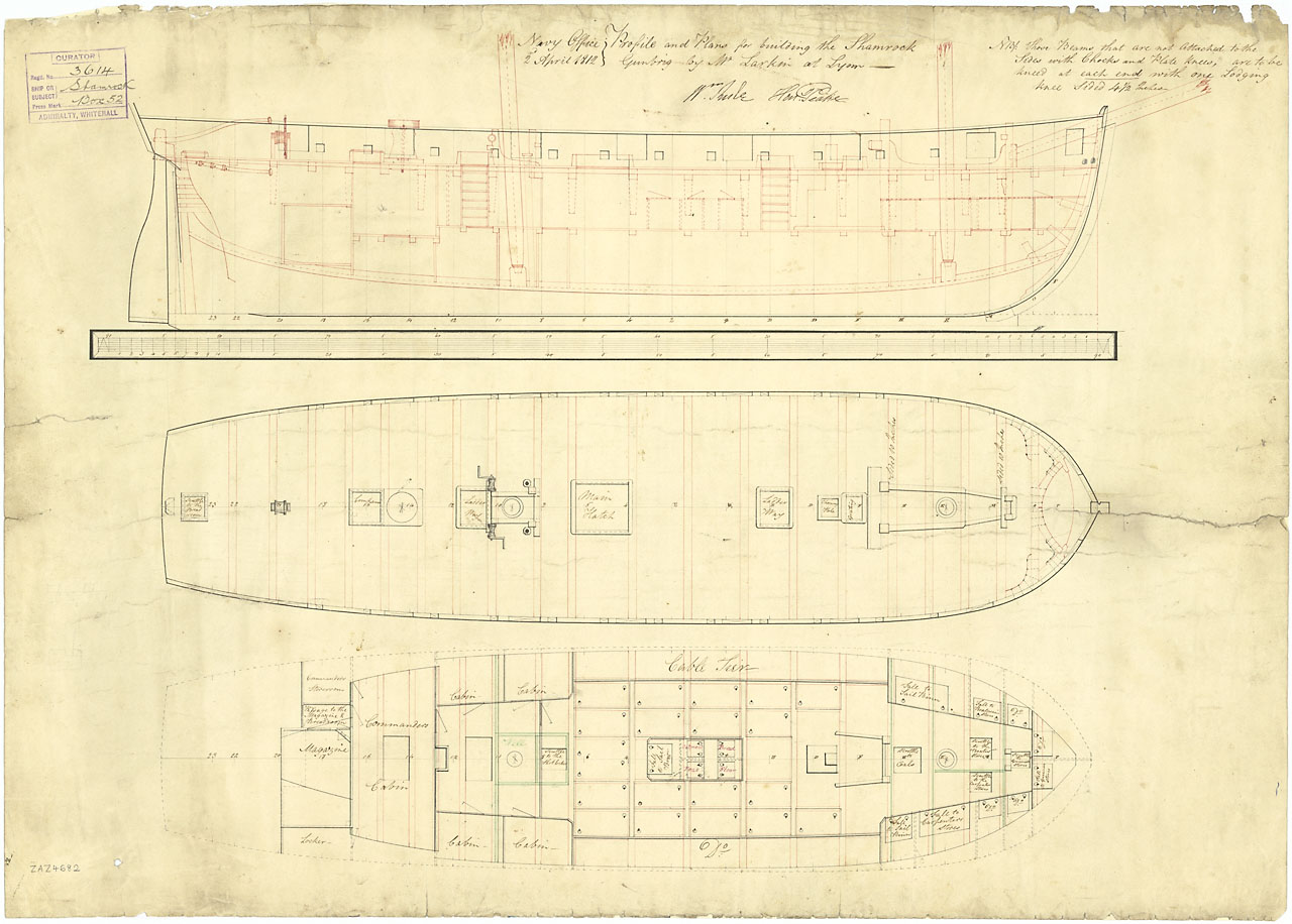 SHAMROCK 1812 Inboard profile plan